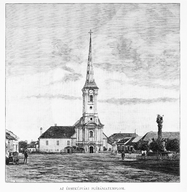 Main sqare in Érsekújvár (Nové Zámky) in 1886